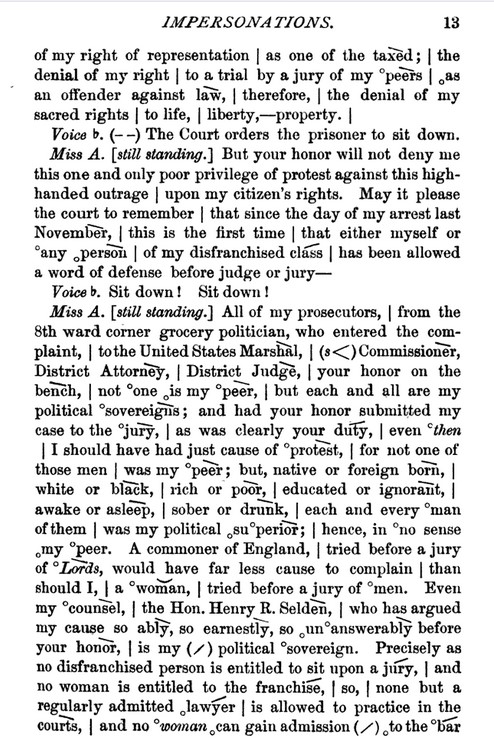 Notations devised by Helen Potter, a professional entertainer and impersonator, for reproducing the speech that Susan B. Anthony made to the court when she was on trial for voting in 1873.